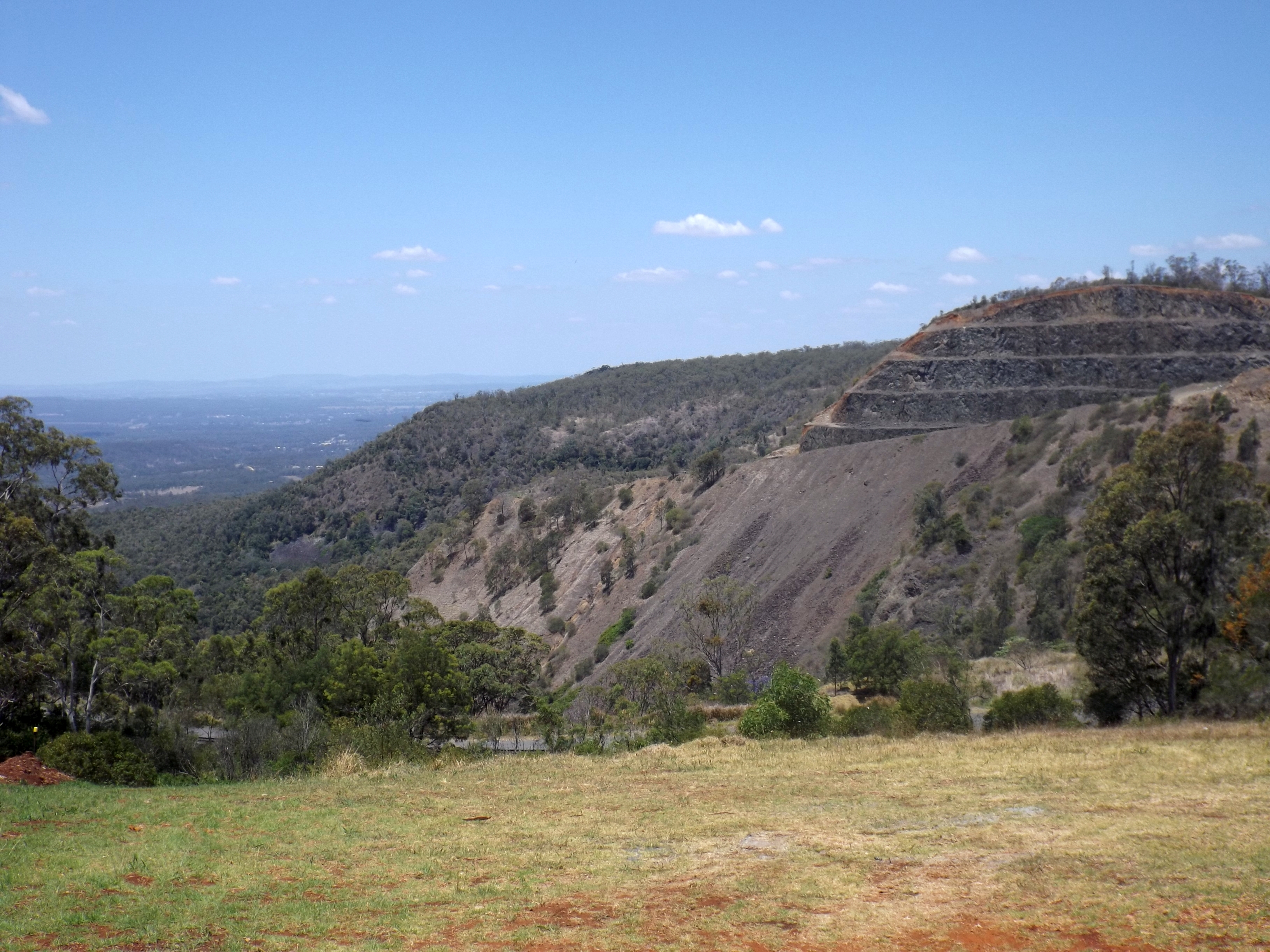 Photo of the view eastwards from Gilmore Court in Harlaxton, Toowoomba, Queensland, Australia.